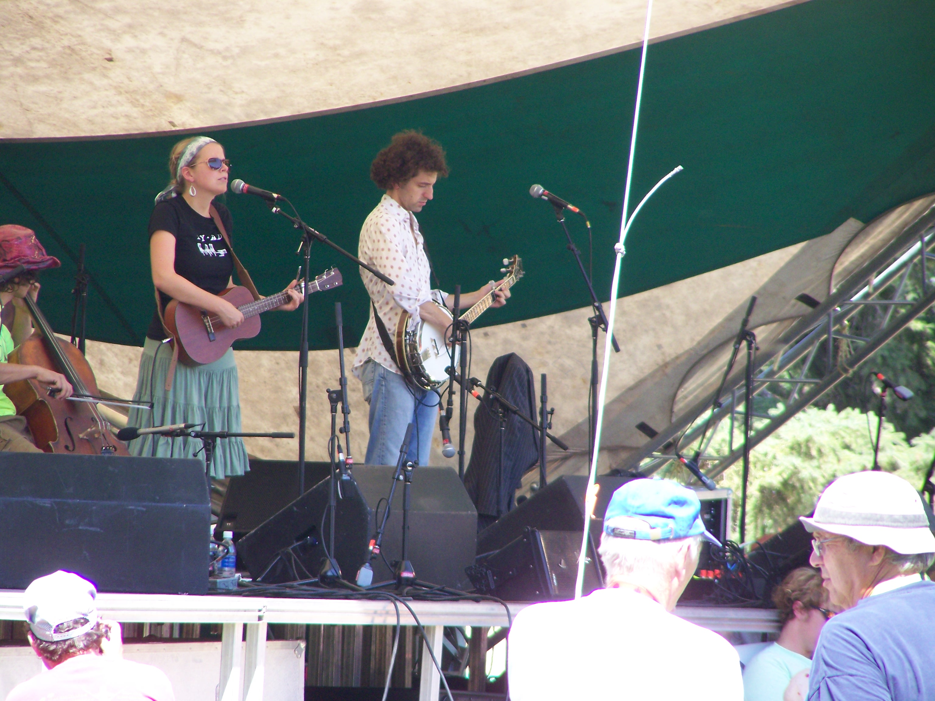 Taken on Prince's Island in Calgary, Alberta, Canada; during the 2007 Calgary Folk Festival. This is the band Crooked Still playing on a stage (there were multiple stages at the festival), visible from outside of the fence of the festival.